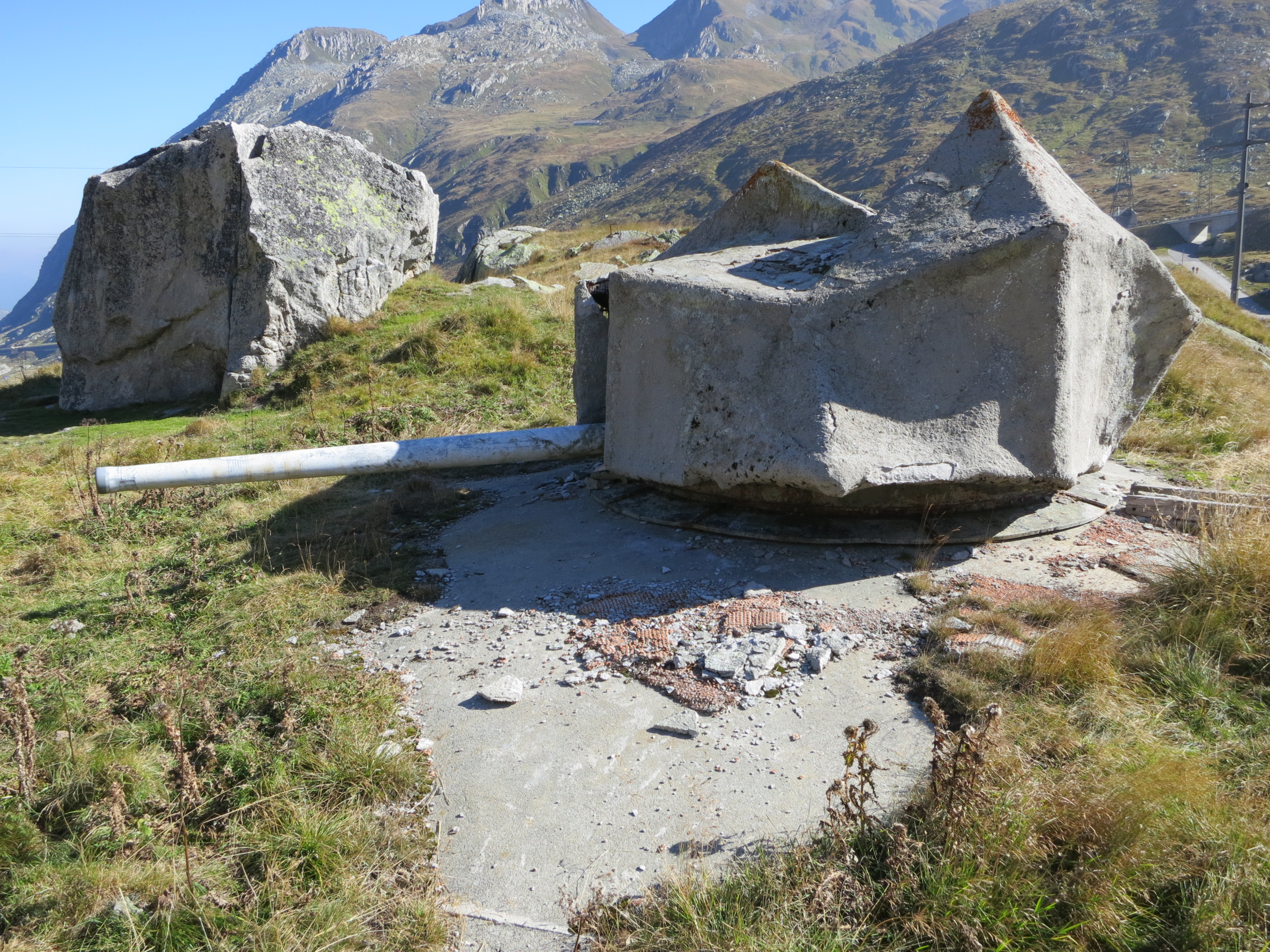 Artilleriewerk San Carlo, Airolo, Schweiz